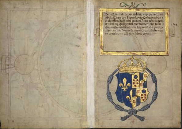 Miller Atlas 1519- Title page with the shield of Catherine of Medicis